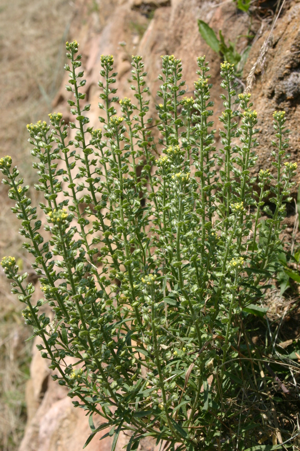 Alyssum alyssoides